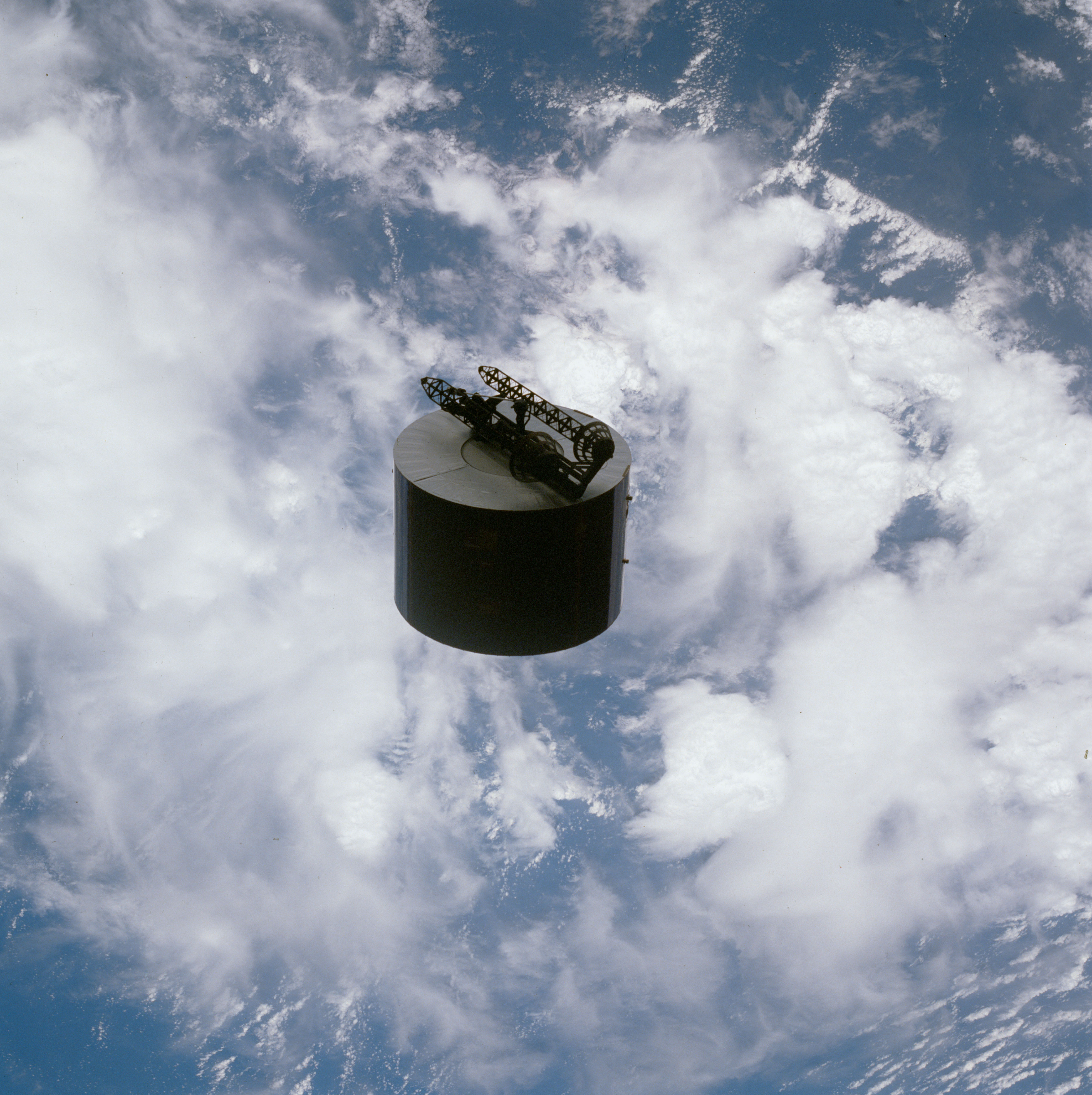 A view of the Syncom IV (LEASAT) framed against a cloudy earth's surface after its deployment from the shuttle Discovery during mission STS-51D